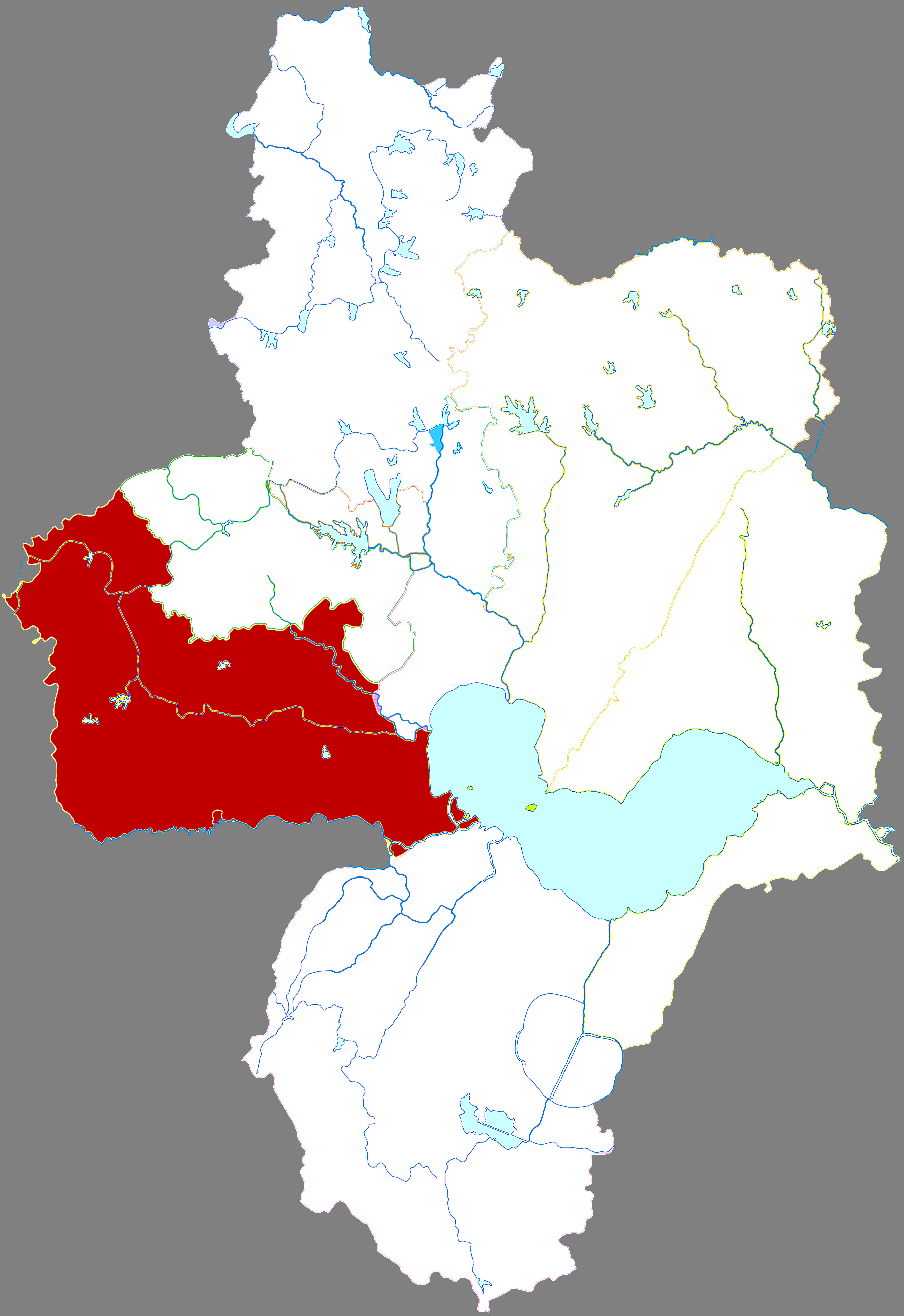 Location of Feixi county in Hefei city, China